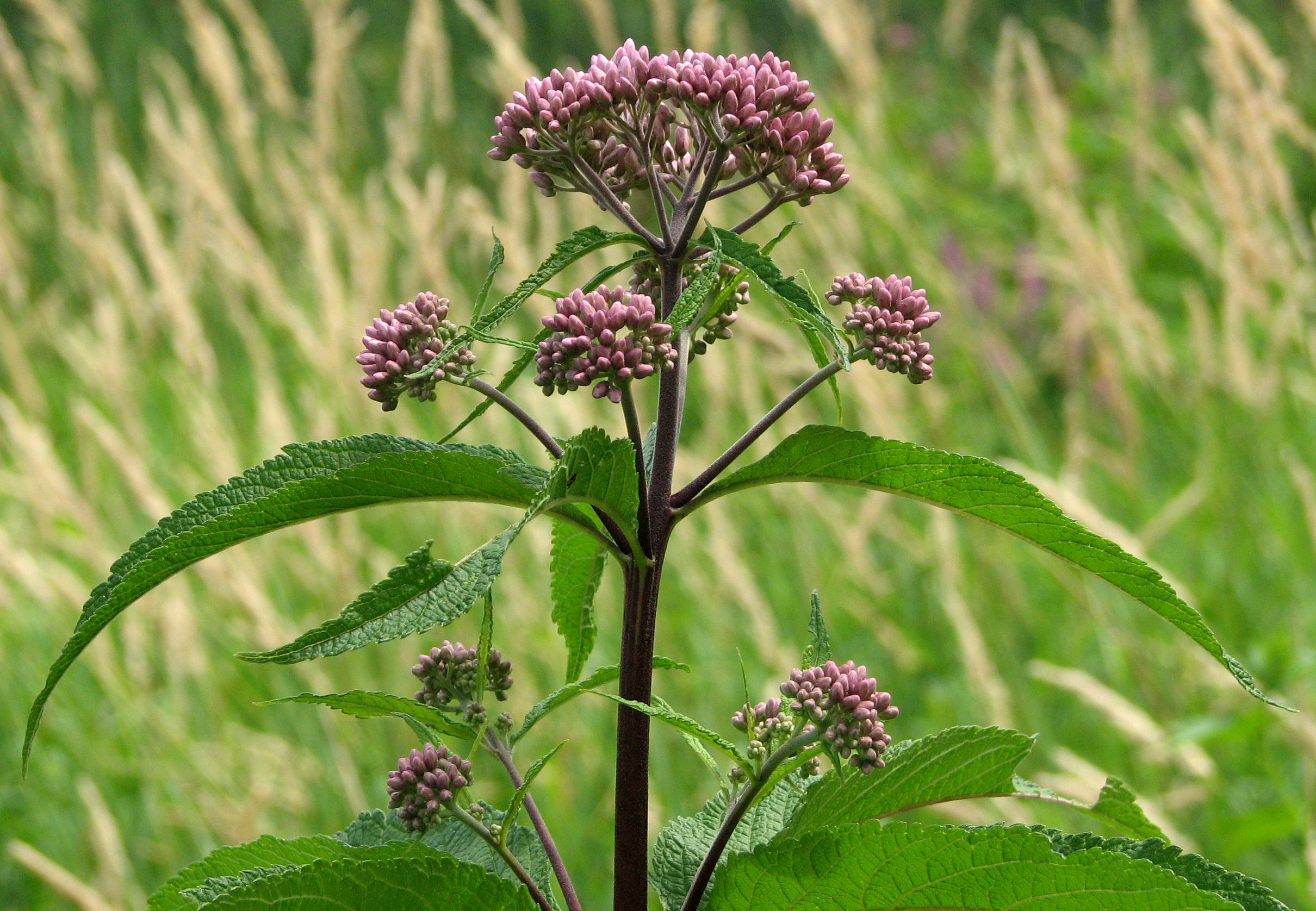 Spotted Joe-pye Weed (Eutrochium maculatum), Ottawa, Ontario, Canada